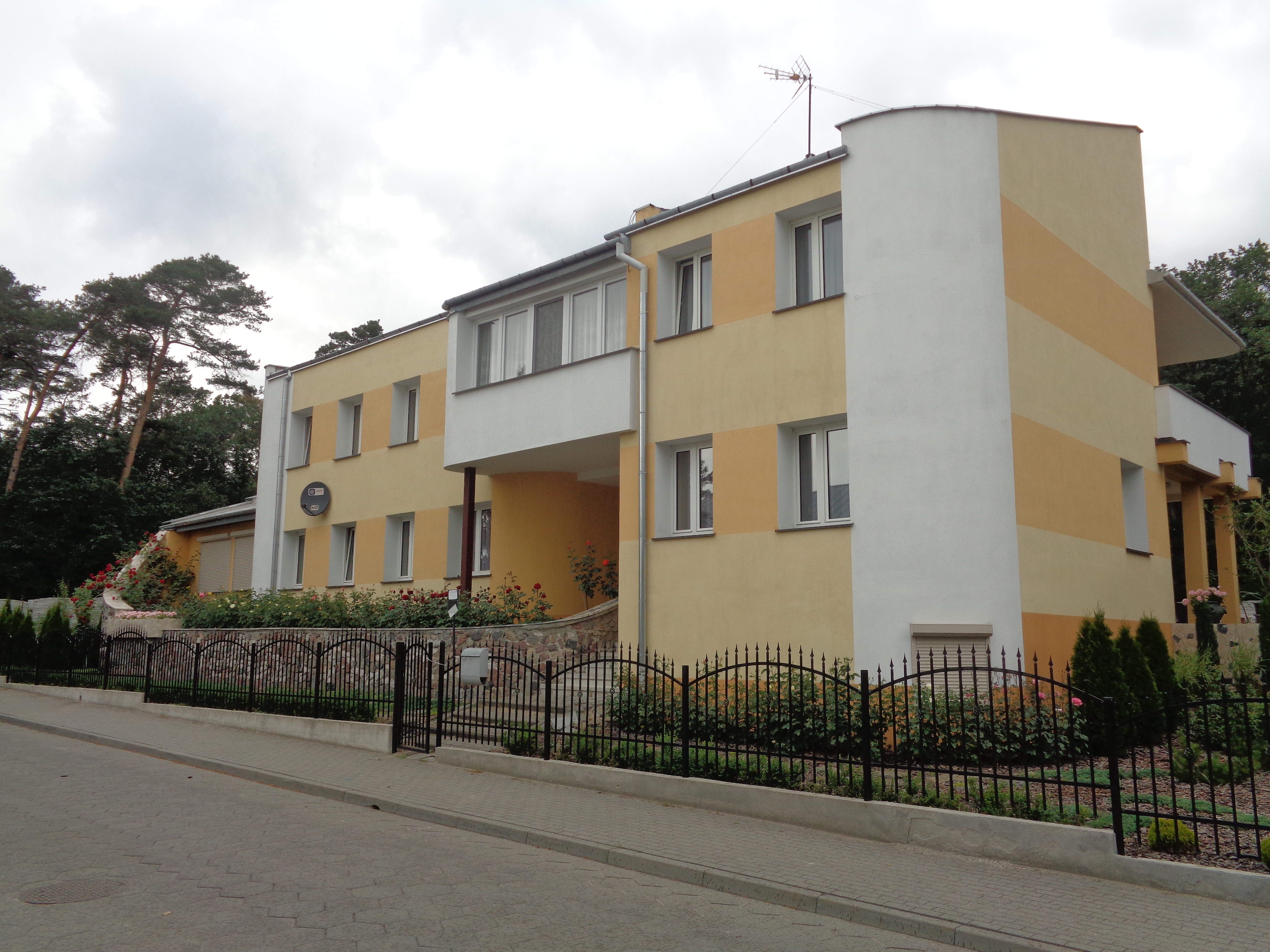 Vicarage of Church of the Saintest Mary Queen of Poland at Krokusowa street on Zawiśle district in Włocławek.